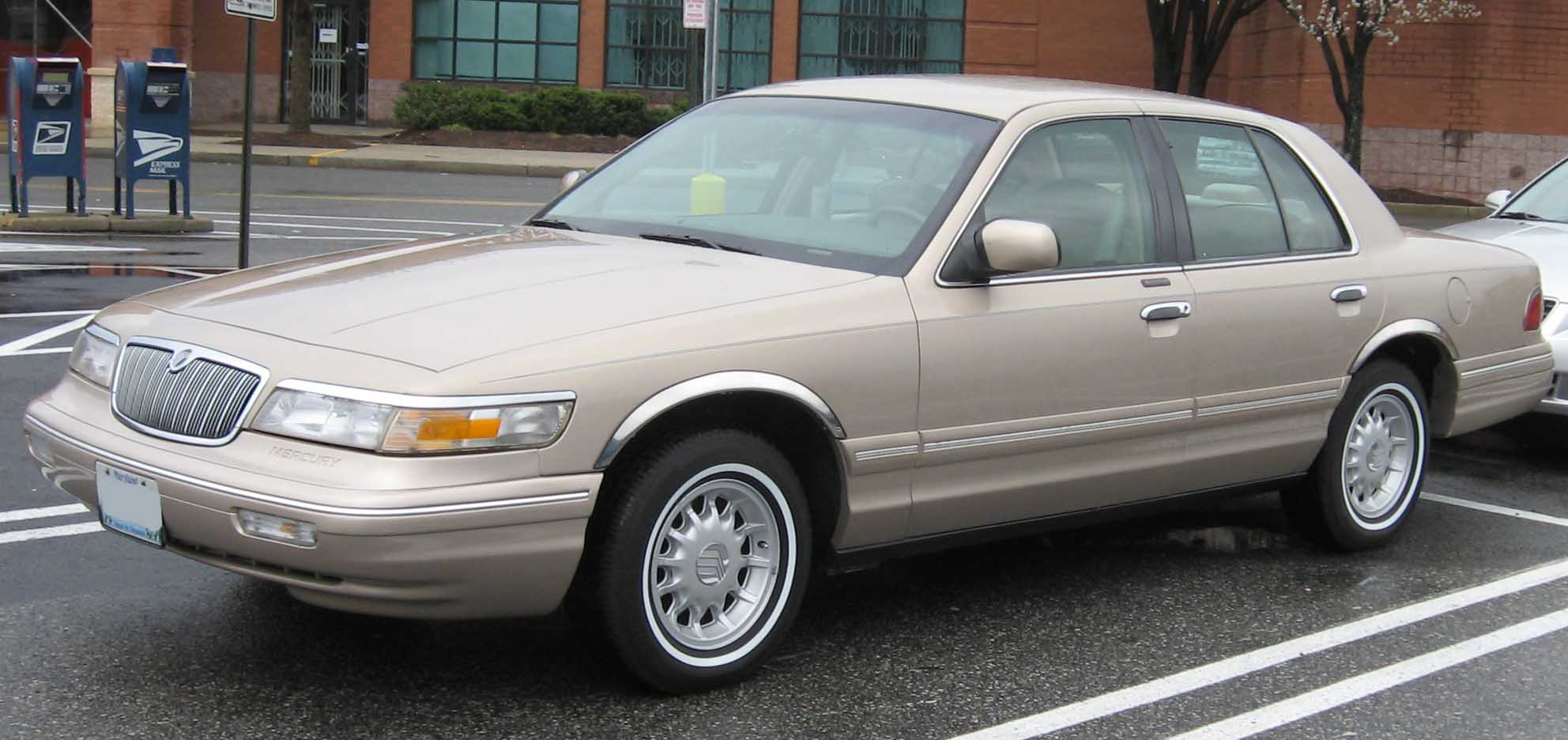 1995-1997 Mercury Grand Marquis photographed in Waldorf, Maryland, USA.